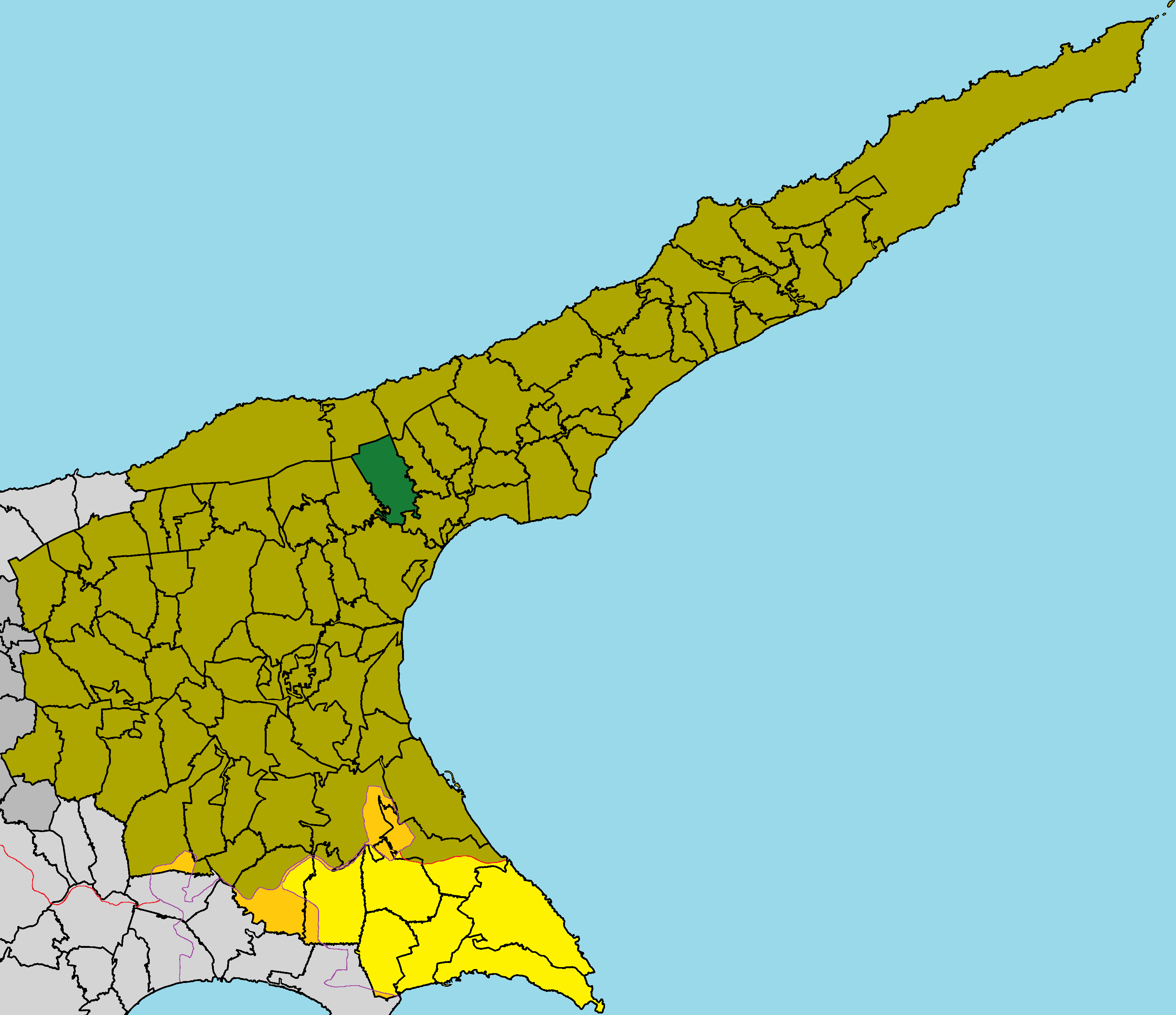 Ardana in Famagusta District (de jure).